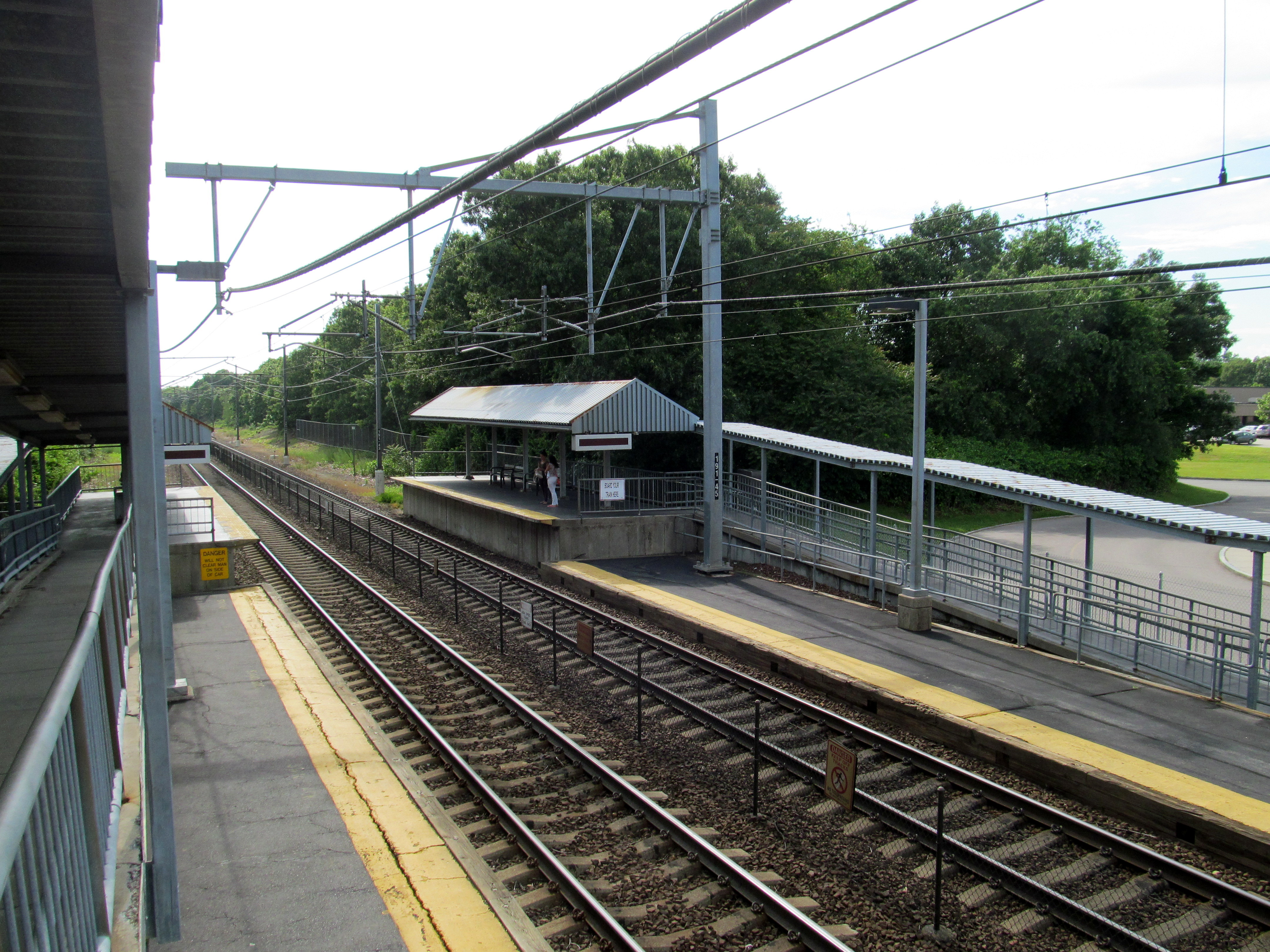 The mini-high platforms at South Attleboro station in June 2013